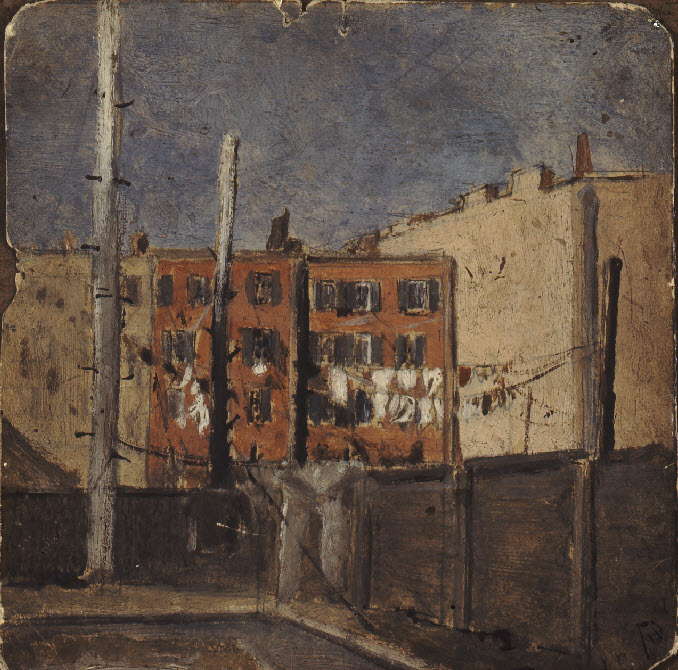 1887 American painting by artist Jerome Myers often cited as one of the first works ever done reflecting the school of Ashcan Art.